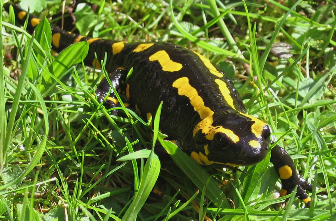 (Salamandra salamandra), adult female